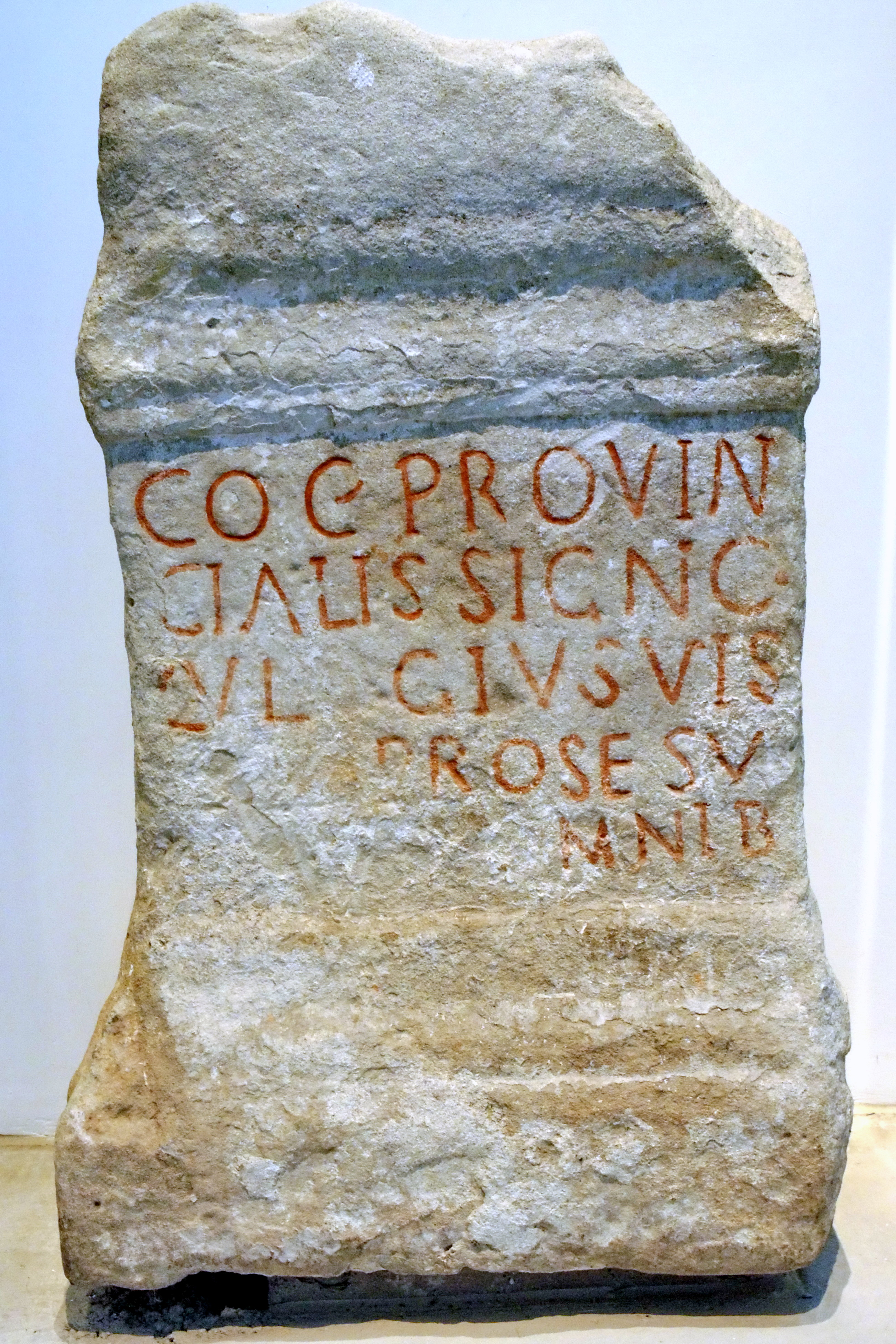 Collection of the Stadtmuseum) in Rapperswil (Switzerland)